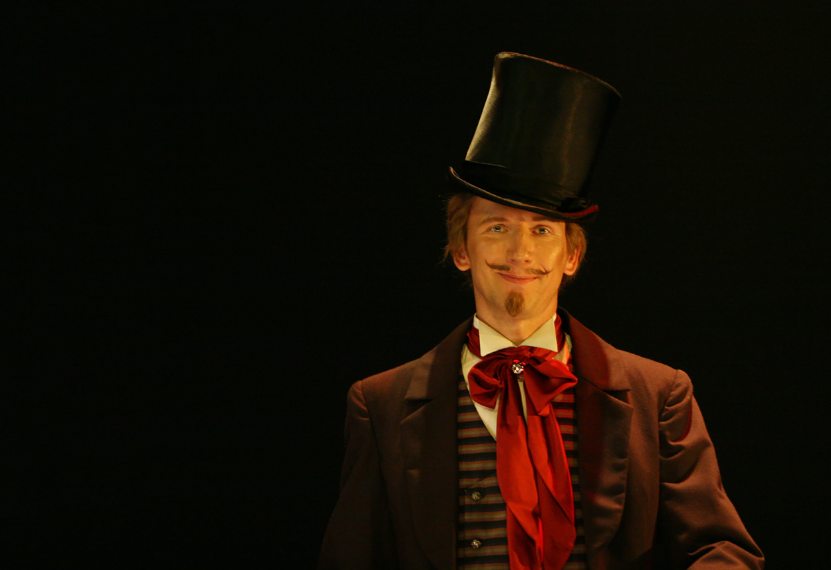 Jakub Szydłowski as Richard Firmin in the musical "The Phantom of the Opera", Roma Musical Theatre in Warsaw, 28 June 2009.